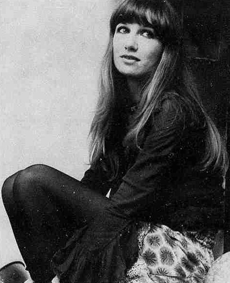 Italian actress Daria Nicolodi